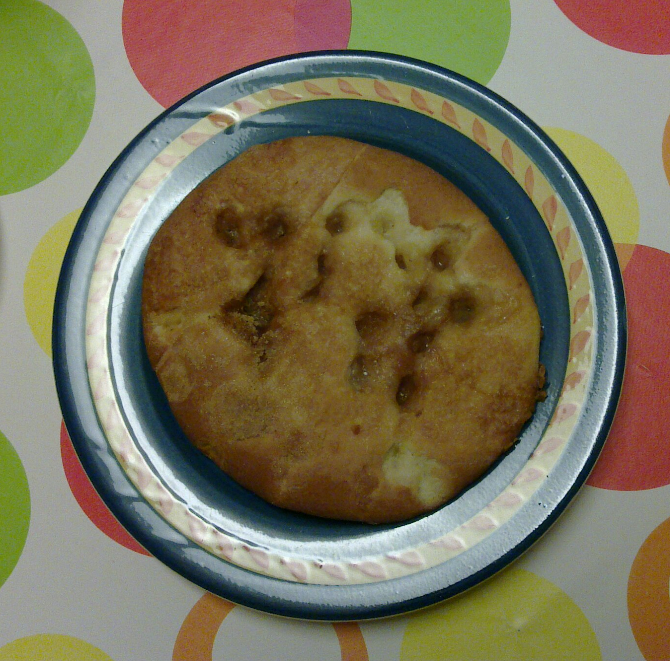 Sugar pie from Nord departement, France.